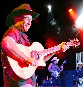 Clint Black in concert at the Chumash Casino Resort in Santa Ynez, California.